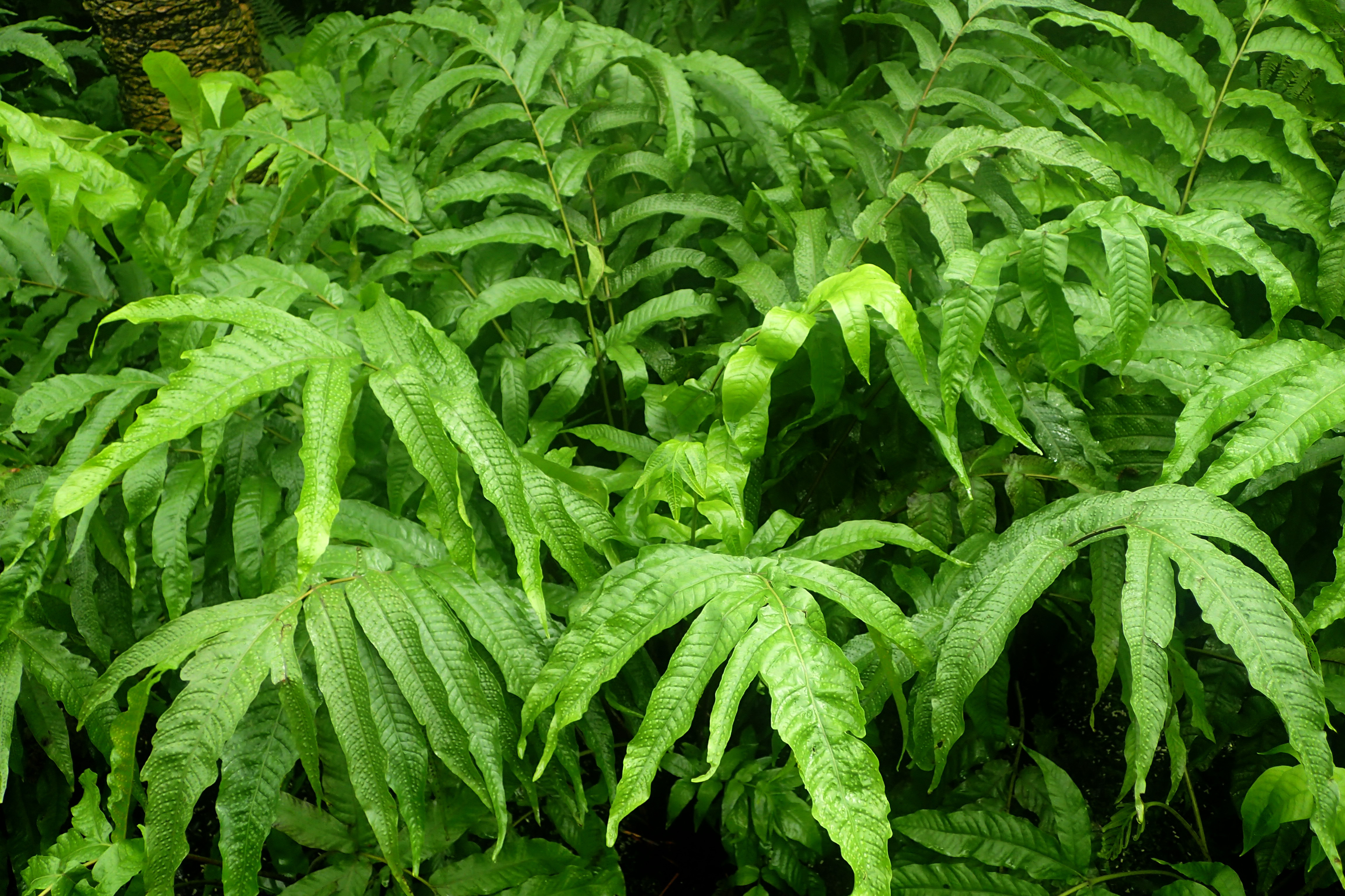 Aspidium crenatus (als Tectaria crenata) at Garfield Park Conservatory